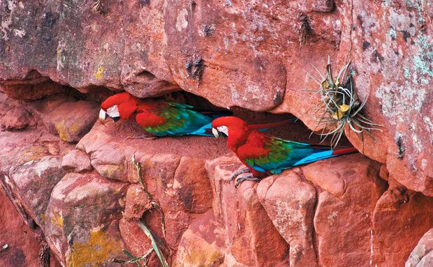 Photos edited taken from Buraco das Araras, MS - Brazil